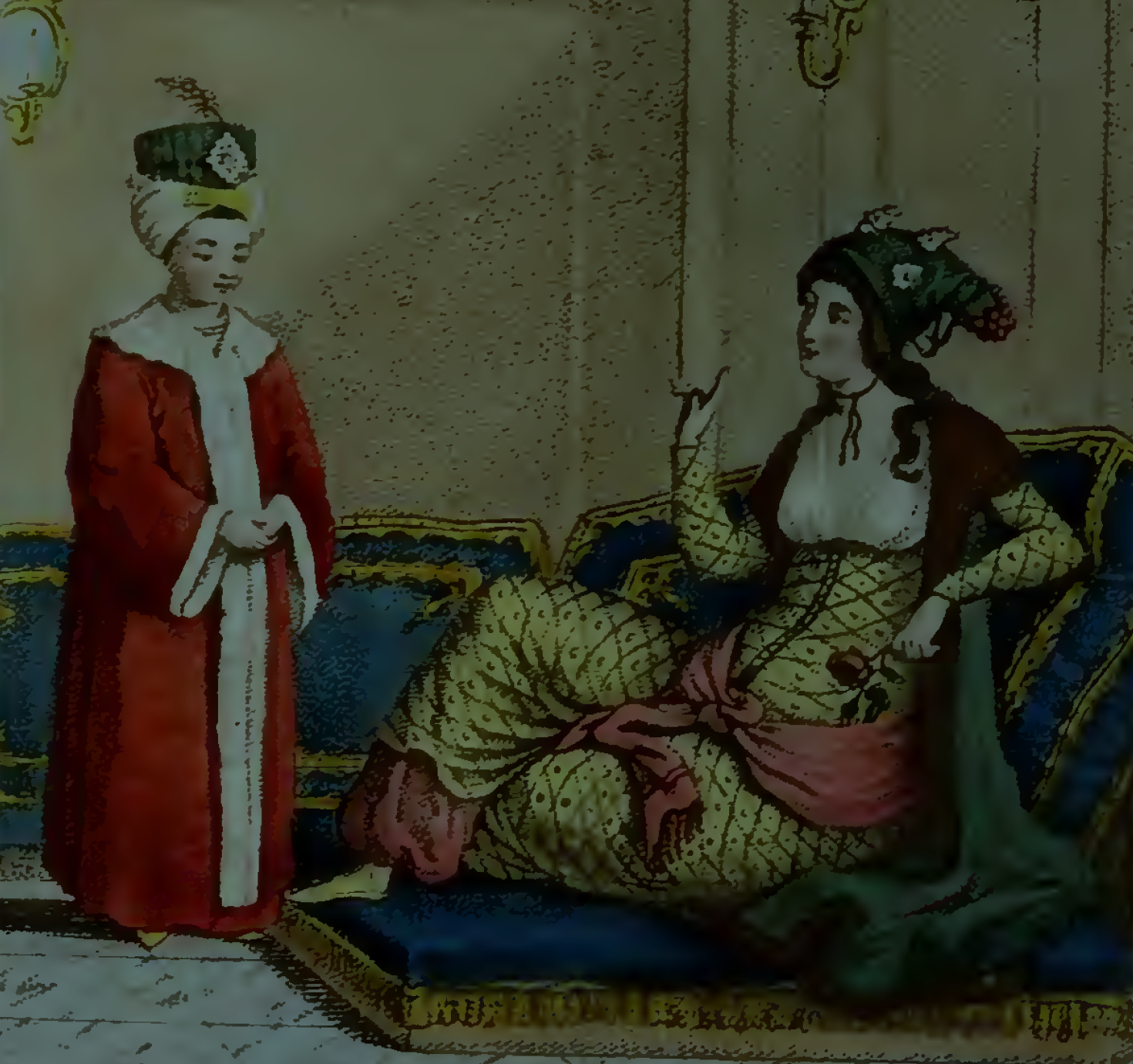 Moeurs, usages, costumes des Othomans : et abrégé de leur histoire Tome 3. Frontispice "Prince héritier du trône, première Khâtoun, sultane favorite"